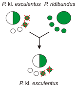 Typical hybridization (and hybridogenesis) between Edible Frog (Pelophylax kl. esculentus, P. lessonae × P. ridibundus) and Marsh Frog (Pelophylax ridibundus) in RE (ridibundus-esculentus) hybridogenetic population.